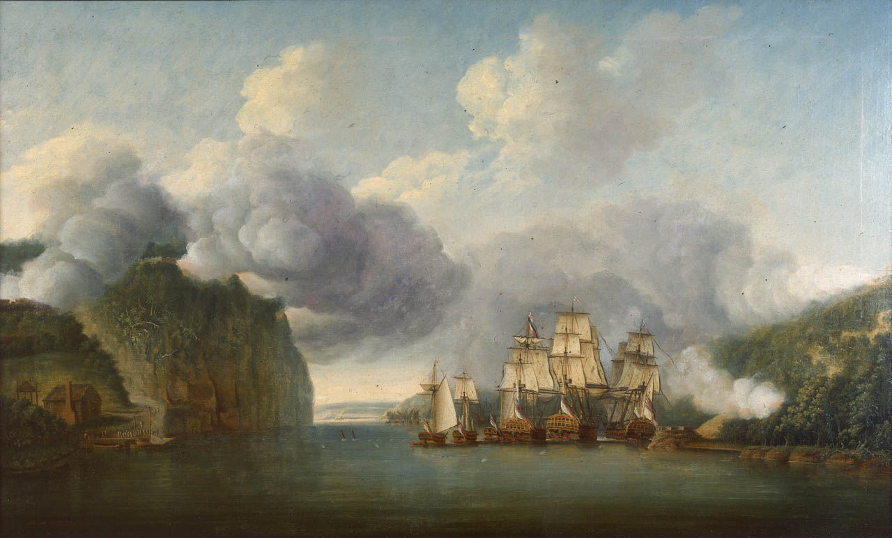 HMS Phoenix, Roebuck and Tartar, accompanied by three smaller vessels, forcing their way through a cheval-de-frise on the Hudson River with the Forts Washington and Lee and several batteries on both sides. The painting is a copy by Thomas Mitchell after the original rendering of the subject, a scene from the American Revolutionary War, by Dominic Serres the Elder.